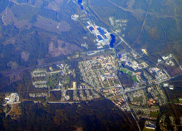 Arial view of Laxå.